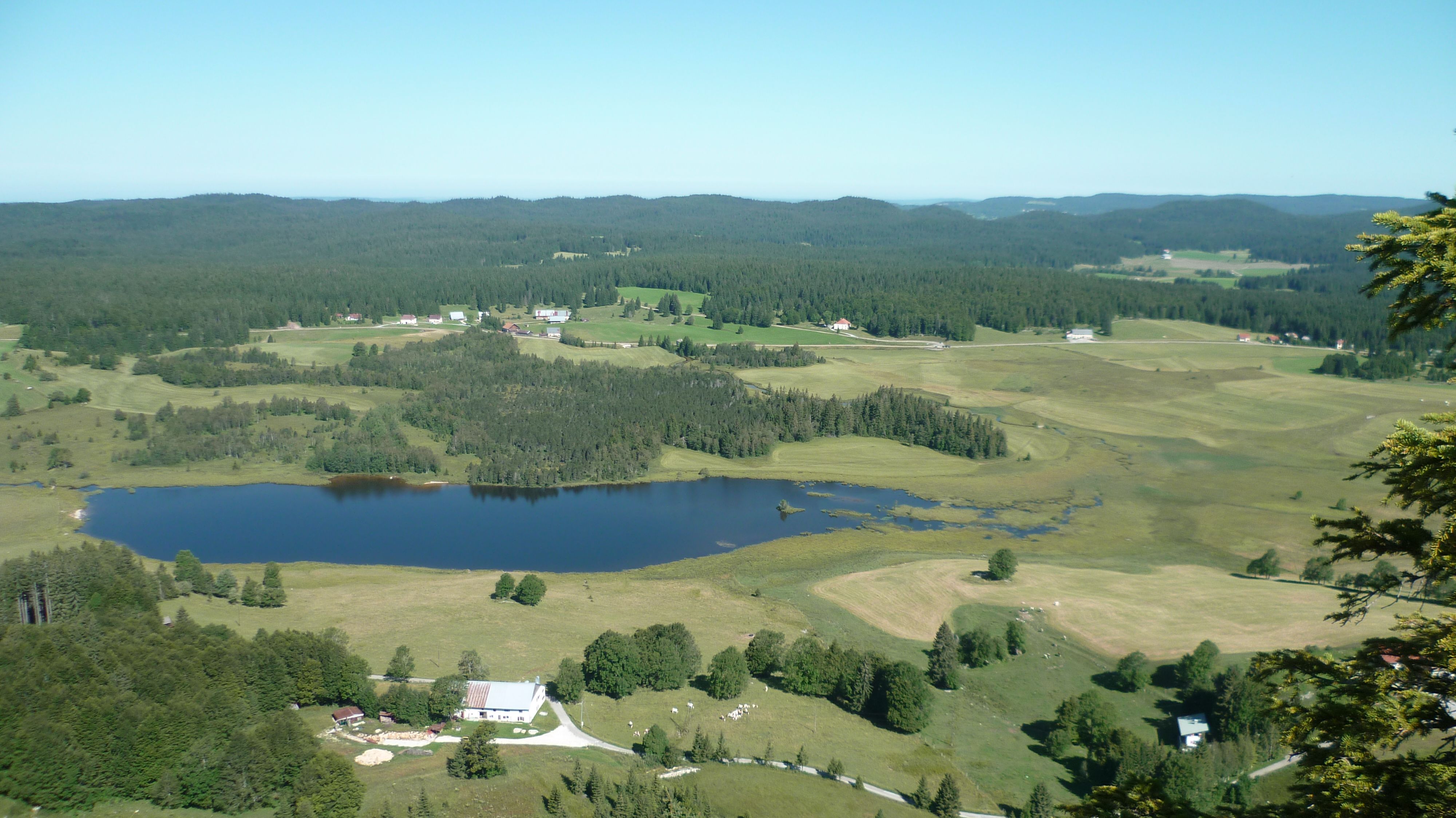 Lac des Mortes, dans le Doubs (photo prise de la crête, frontière franco-suisse)